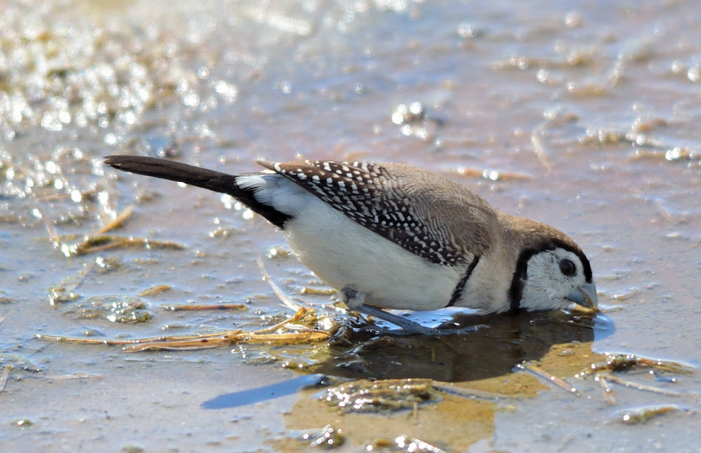 A Doulbe-barred Finch drinking in Brisbane, Queensland, Australia.